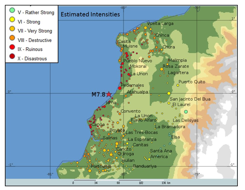 Estimated IMM of shaking for settlements in Ecuador due to the earthquake of 16 April 2016. The source of energy release is a line outlined by the aftershocks (approximately the extent of the red dots) at 20 km depth. The epicenter is artificially put at the center of this line source to mark the center of the energy release. Attenuation of seismic waves is assumed slightly larger than average to approximately match the reported Intensities.